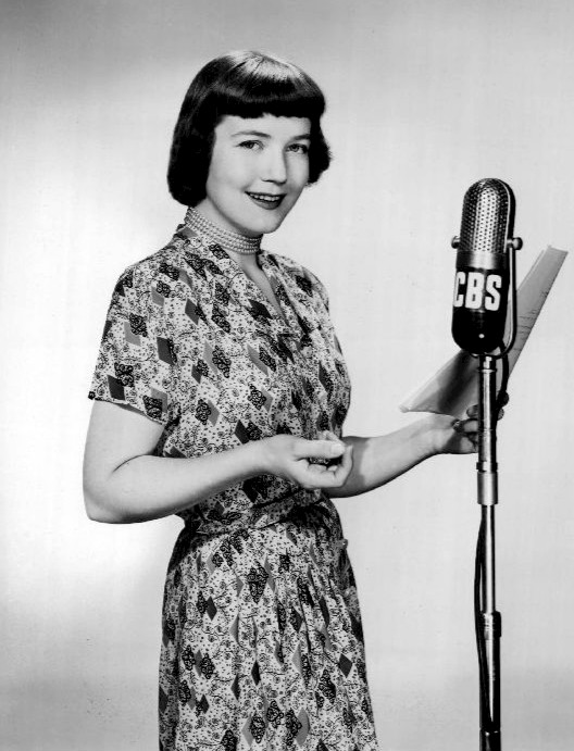 Photo of Margaret Draper, who had a role on the radio daytime drama The Brighter Day. The copy included is from the maker of the dress she's wearing. It appears that they had a line of dresses as a tie in to the program; the actresses apparently were photographed in them and the company marketed them as "Brighter Day" dresses.